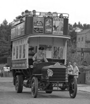 Beamish Museum Daimler replica bus (reg. J 2503) at Beamish Museum, County Durham, England. It's seen here westbound on Pitfield Street in the Pit Village.